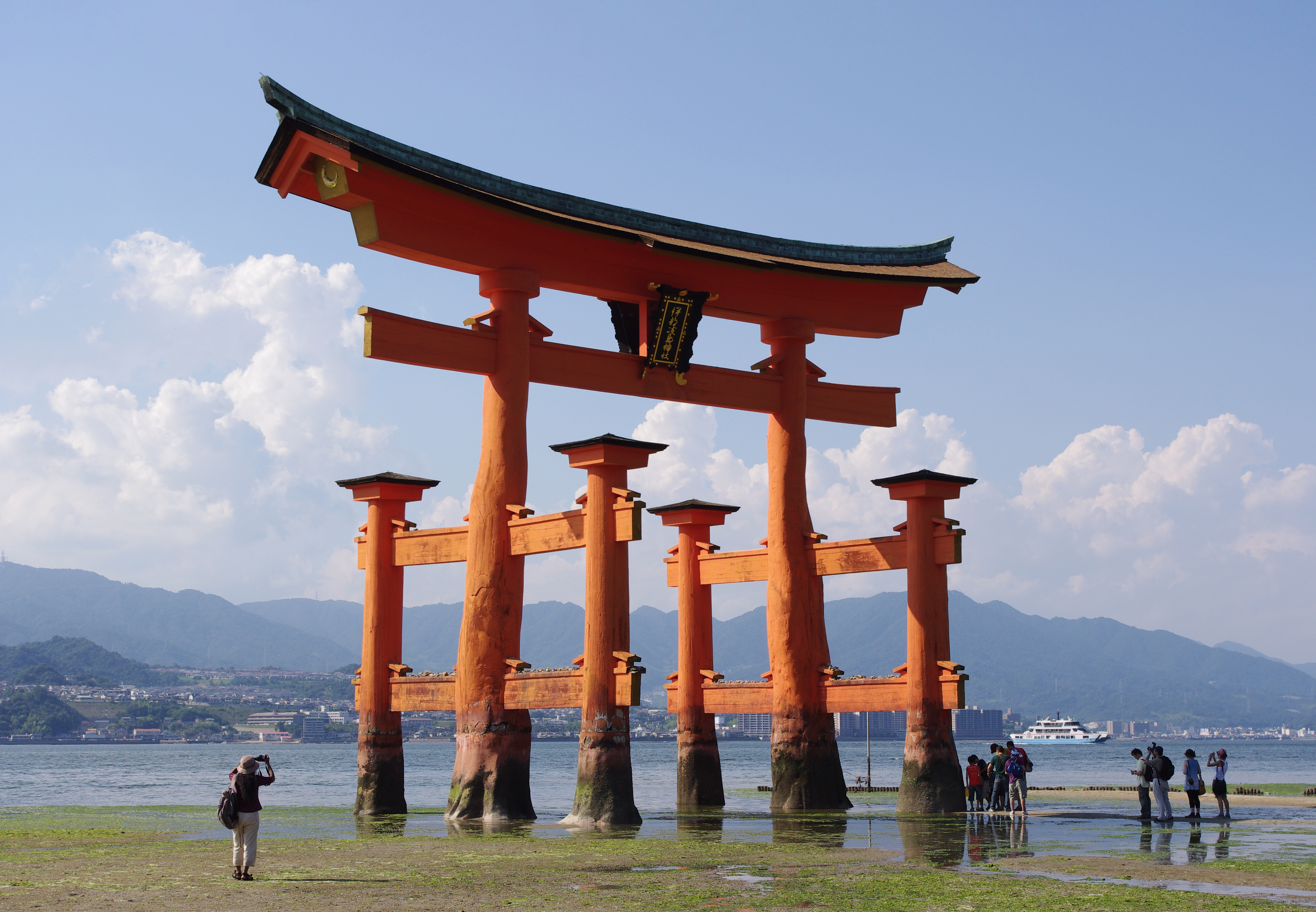 The floating torii gate of the Itsukushima Shrine in Japan, during low tide.